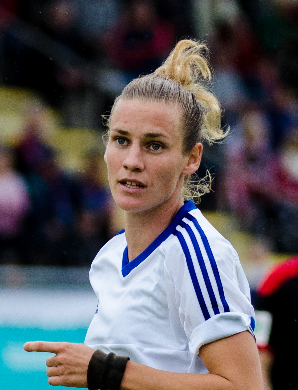 Match of the German Women's Football Bundesliga between 1.FFC Frankfurt and 1. FFC Turbine Potsdam, 2015-09-13